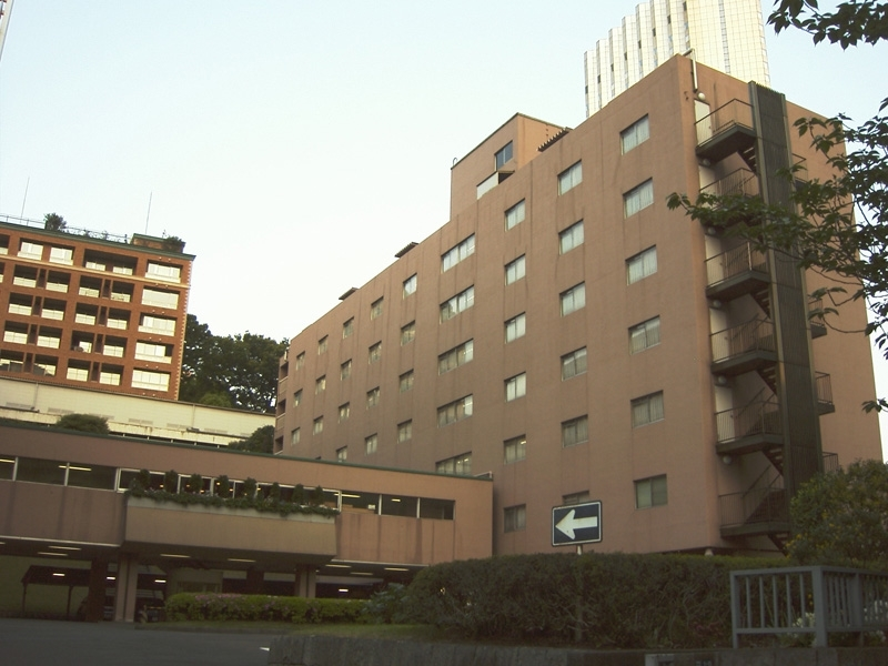 Lawmaker Government residence Japan